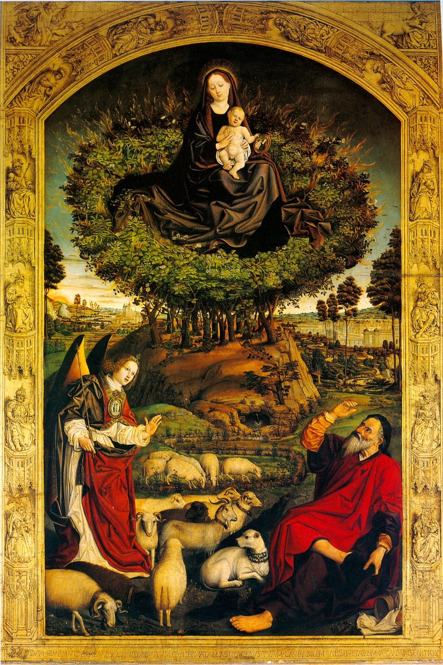 The_Burning_Bush._Saint_Sauveur